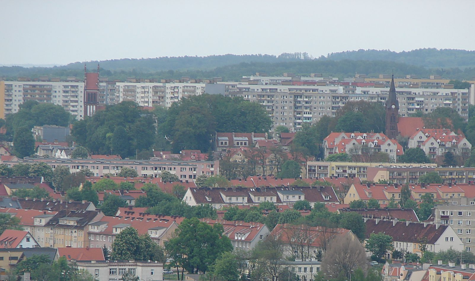 View from the tower of the cathedral St. Nicholas to the St. Adalbert Church and to the St. Peter Church